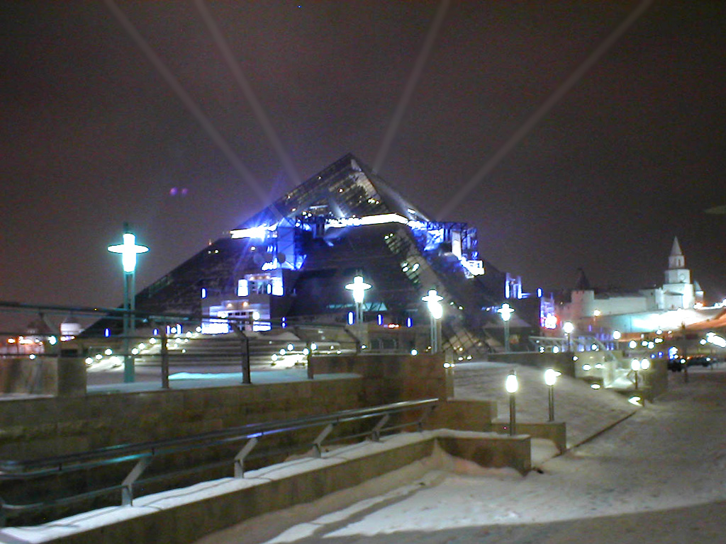 Pyramid culture-entertainment complex in Kazan, night view